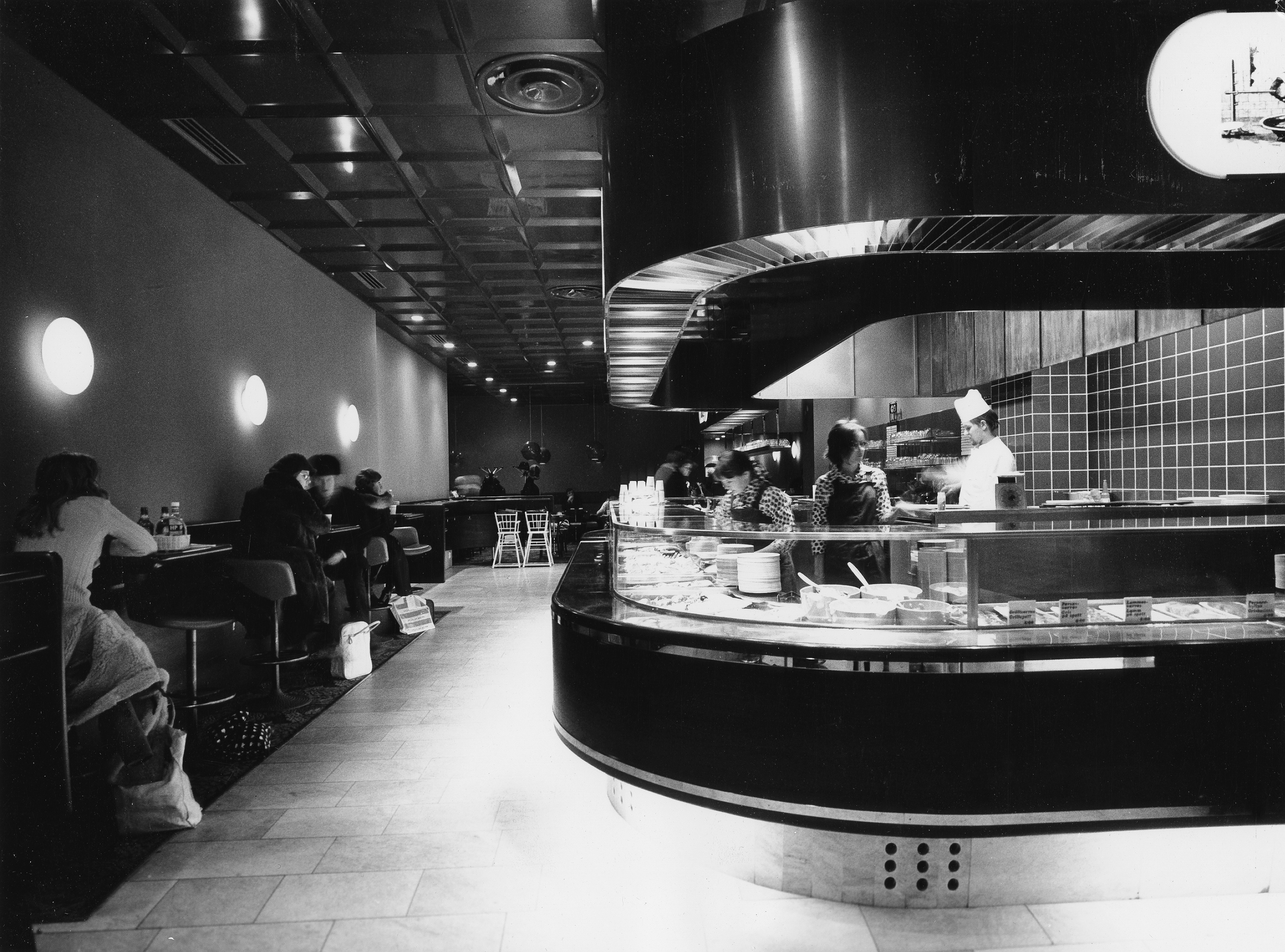 Interior of Go Inn restaurant, Aleksanterinkatu 13, Helsinki, Finland, in 1971. Restaurant owned jointly by Oy Karl Fazer and Nestlé.